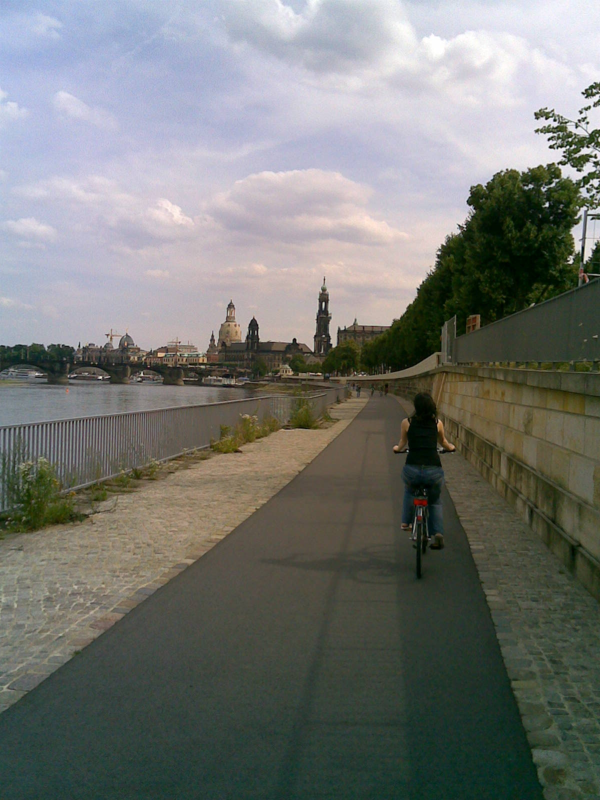 Dresden: Bike Path “Elberadweg”. In the background the “Frauenkirche”.